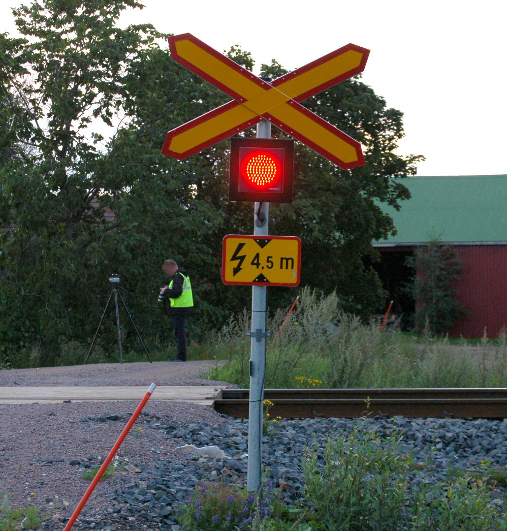 Level crossing equipped with warning light, activated by an approaching express train. Loimaa, Finland on the Turku–Tampere line.